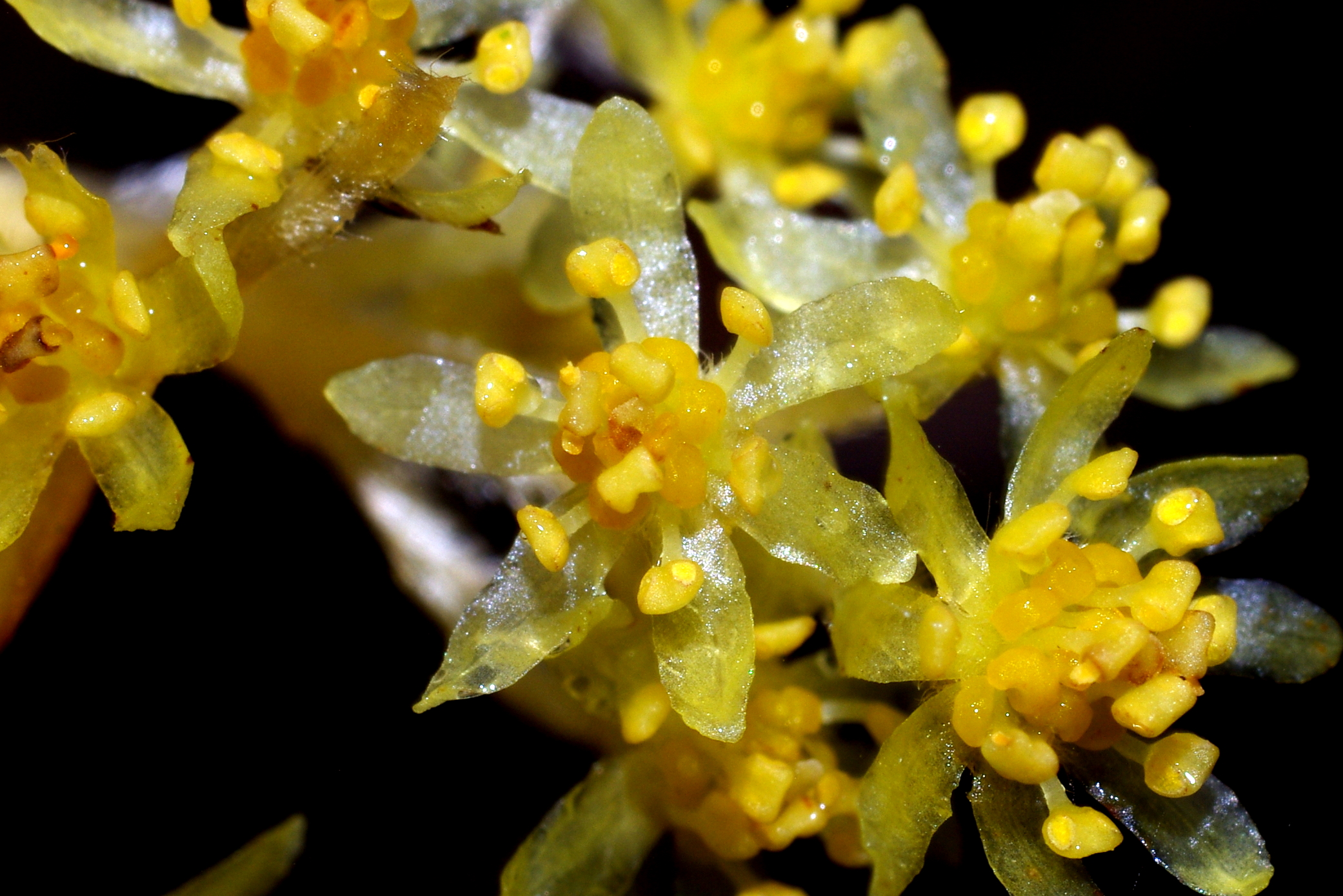 hermaphroditic flower